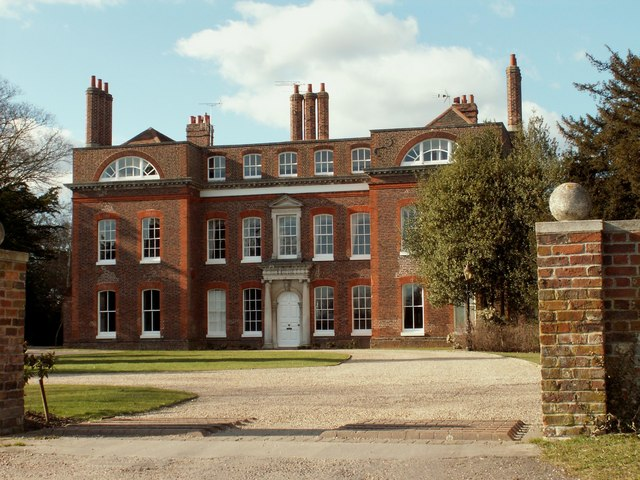 Springfield Place, Springfield, Essex. Springfield Place is a large 18th century house. The south face has nine bays with two-bay projecting wings. It stands to the east of the church, overlooking the village green.